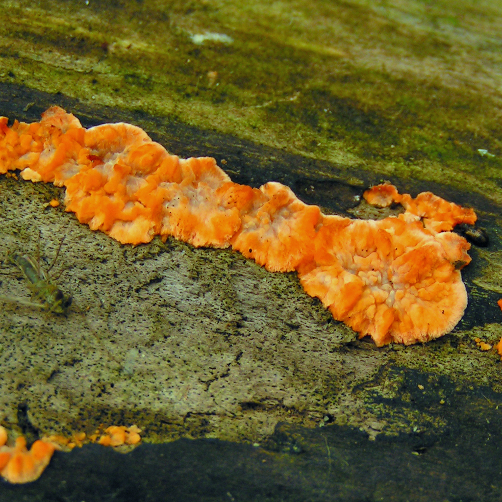 The fungus Phlebia radiata Fr. Photographed in Rondeau Prov. Park, Blenheim, Kent County, Ontario. "Notes: Rondeau Prov. Park. Carolinian forest. About 3 cm long."